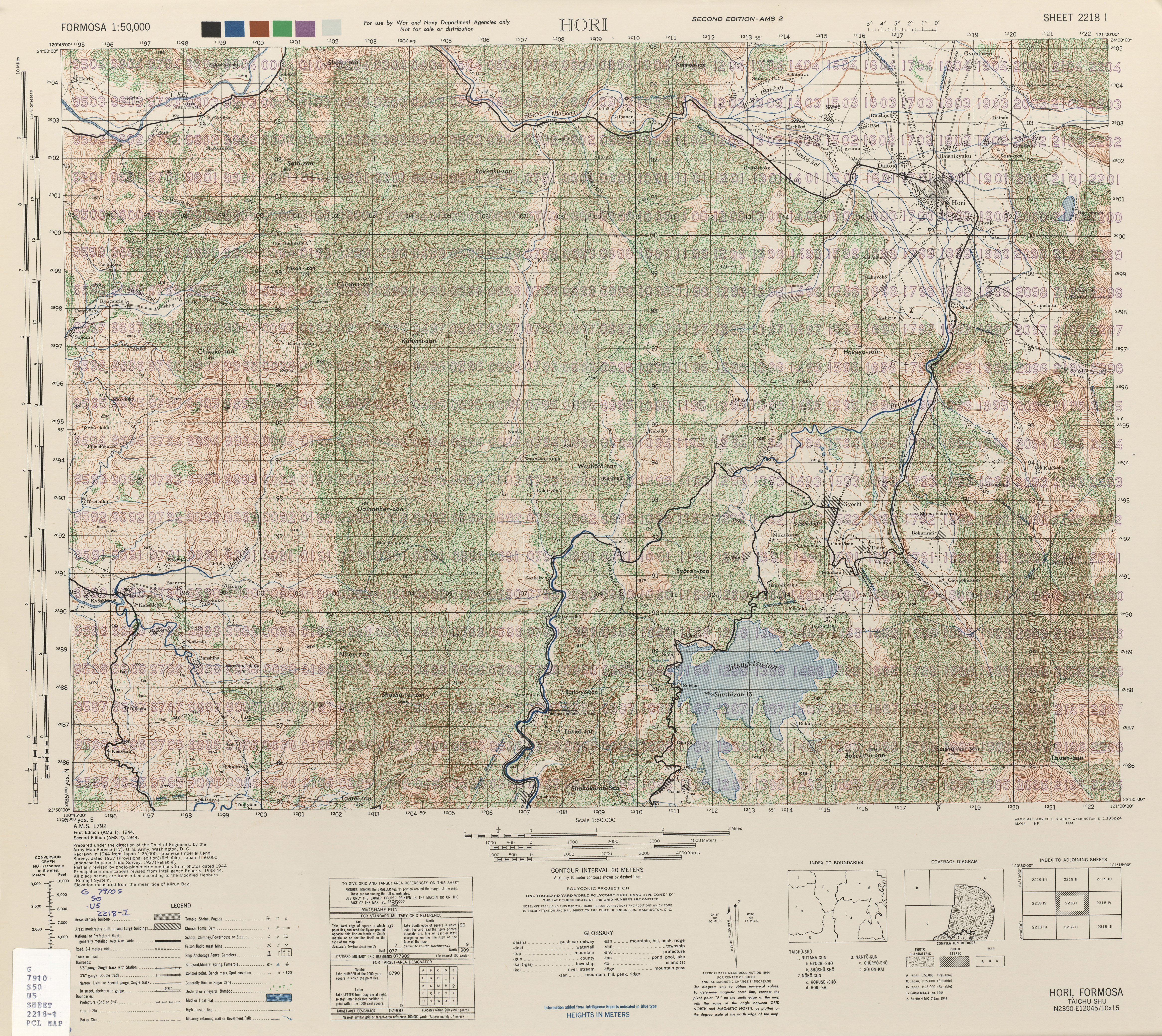 Map from Formosa (Taiwan) 1:50,000 AMS Series L792